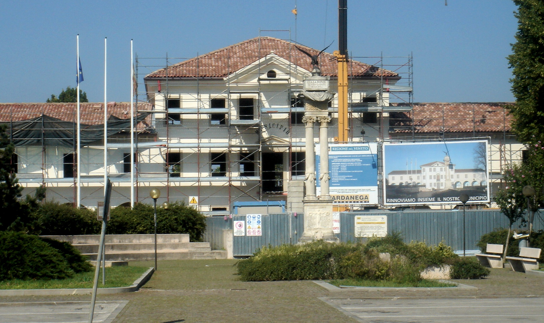 Gaiarine (TV)